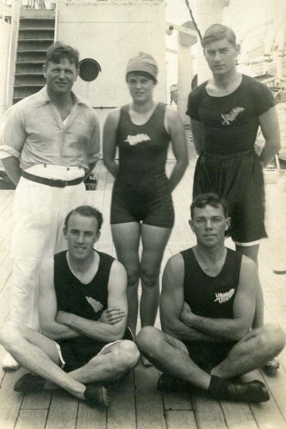 Standing: Cecil "Tui" Walrond (Chaperon), Violet Walrond, George Davidson. Sitting: Harry Wilson, Darcy Hadfield